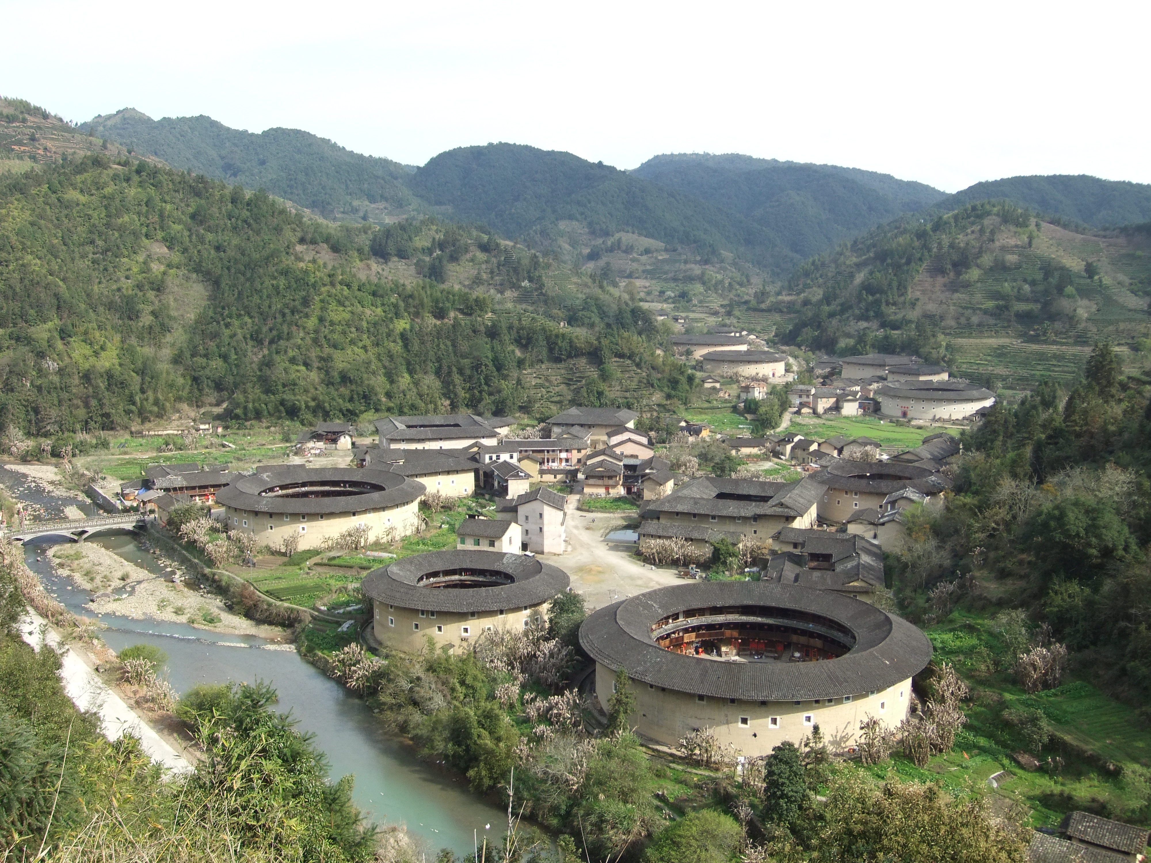 Hekeng Village, seen from the tourist lookout on the slope of Gongwangqi Mountain (a hill just northwest of the village).